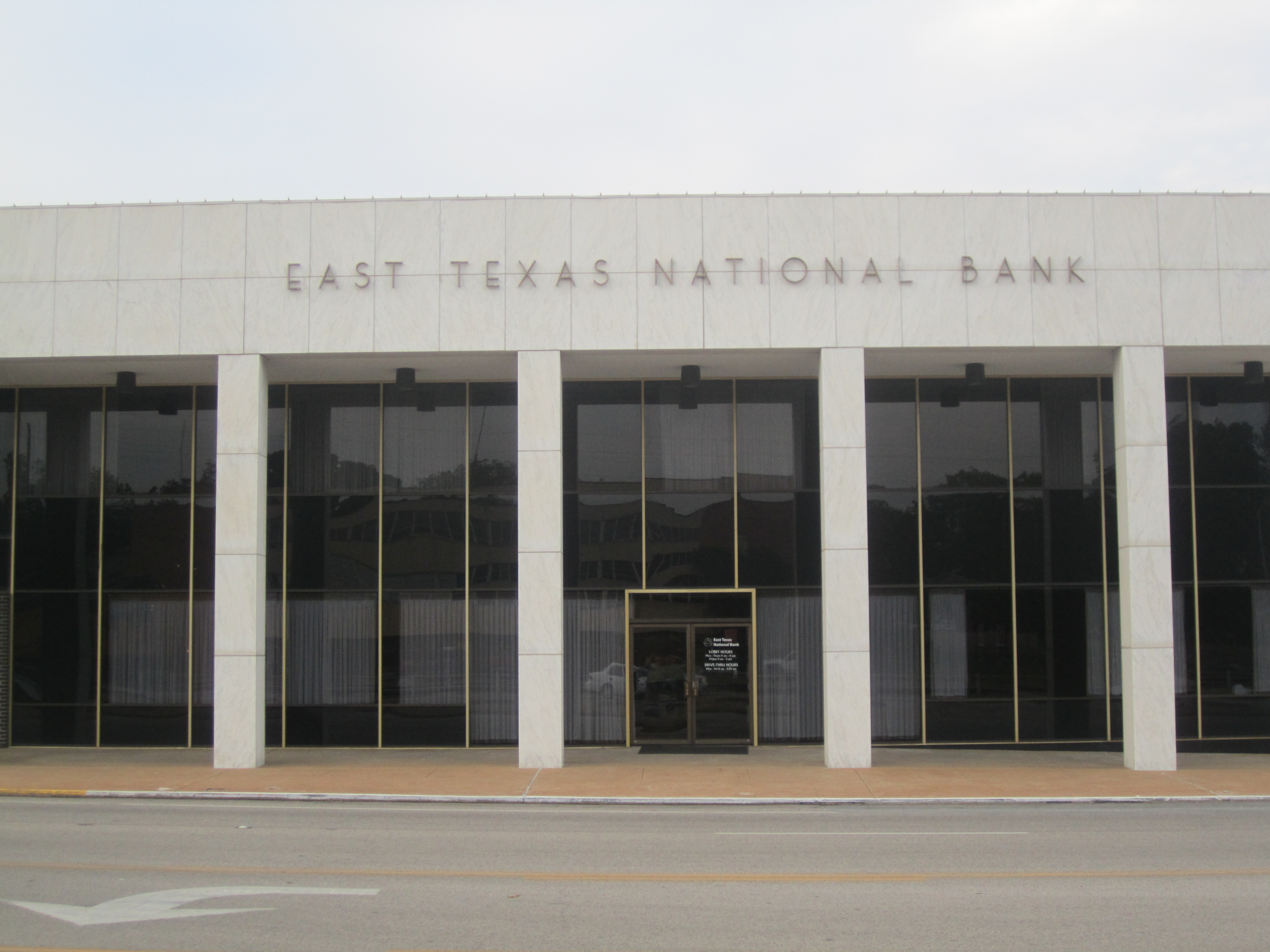 I took photo of East TX National Bank in Palestine with Canon camera.